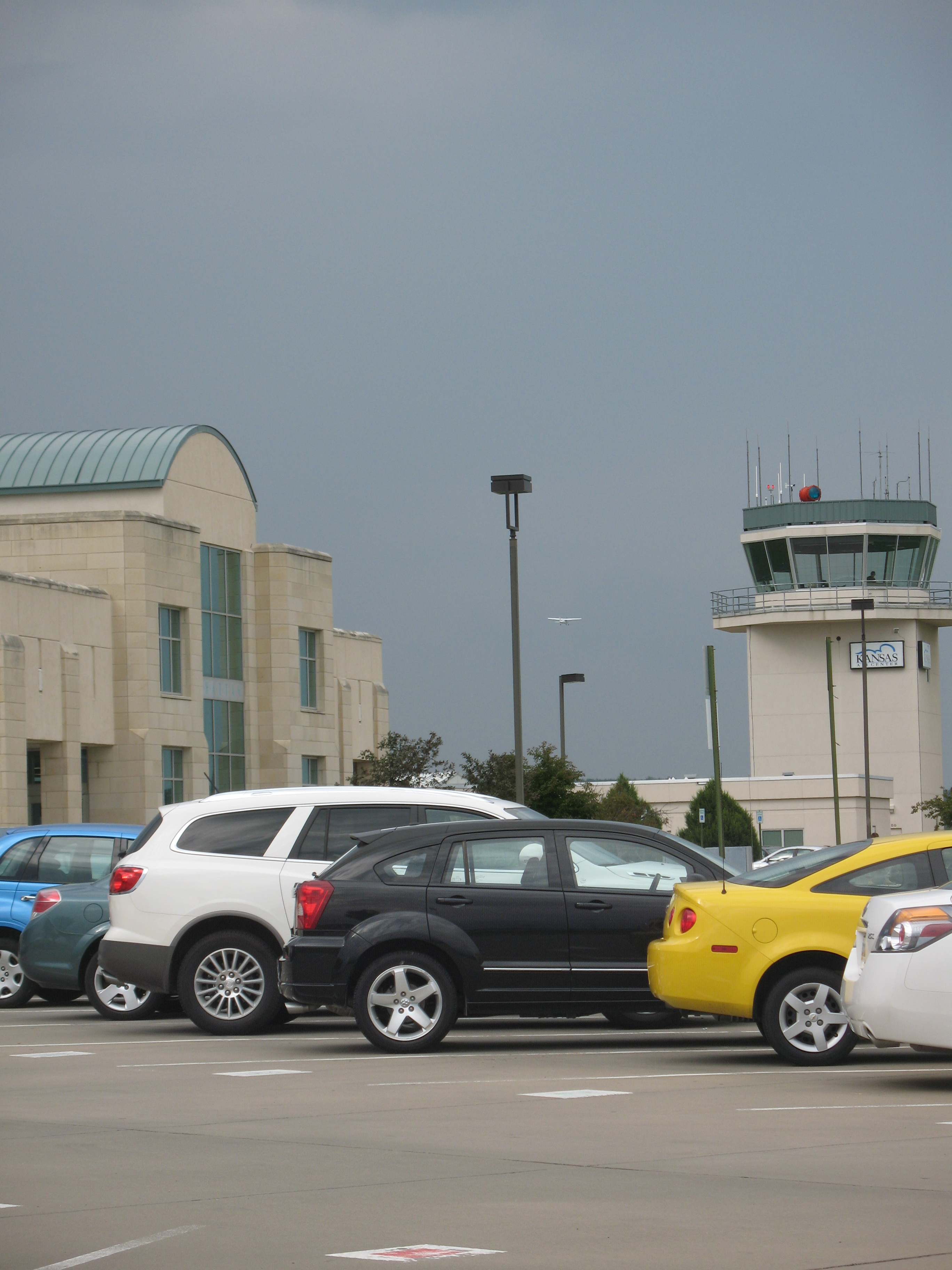 The Manhattan Regional Airport Control Tower and Terminal.